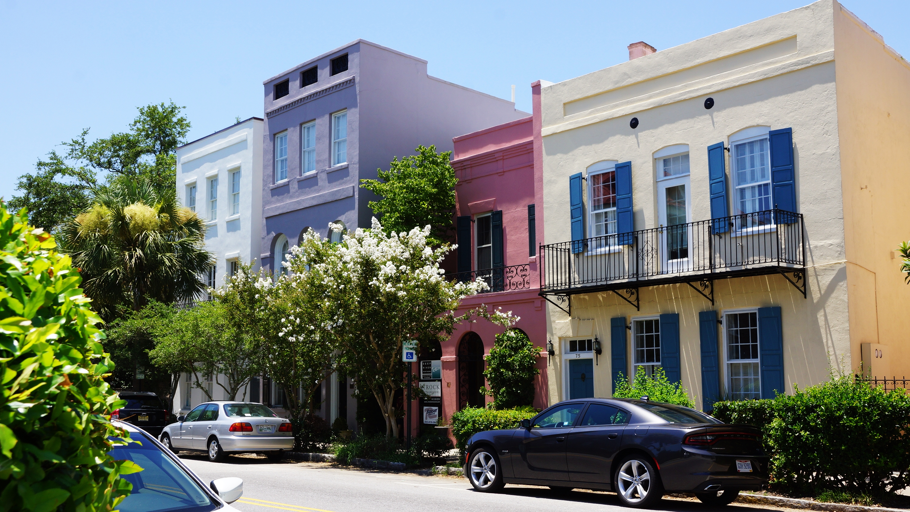 Charleston is the oldest city in South Carolina dating back to its founding in 1670. The city’s Rainbow Row houses date back to the 1700s. They originally fronted the Cooper River. Most of the buildings had no interior stairs limiting access between the first and second floorsto exterior stairs in the back yards. A 1778 fire destroyed much of the neighborhood leaving only these houses on East Bay Street.